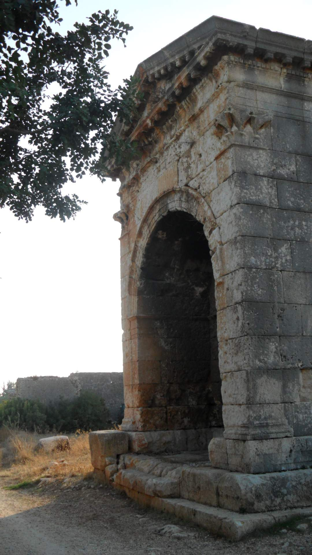 Ayaş